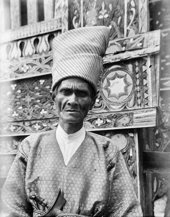 Negative. A adatkostuum to Minangkabau in Solok, West Sumatra